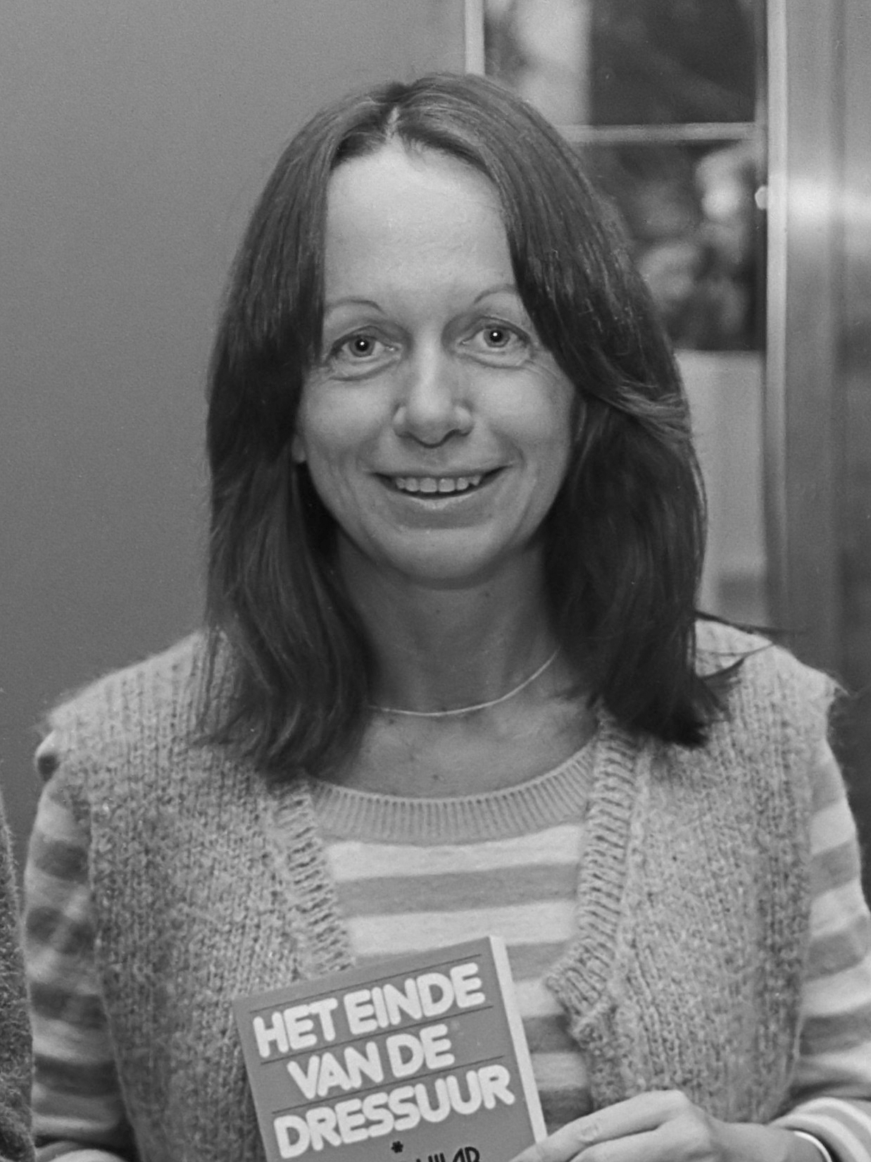 Boekeninformatiebeurs Vers voor de Pers te Amsterdam. Esther Vilar met haar nieuwe boek "Het einde van de dressuur" 7 maart 1977